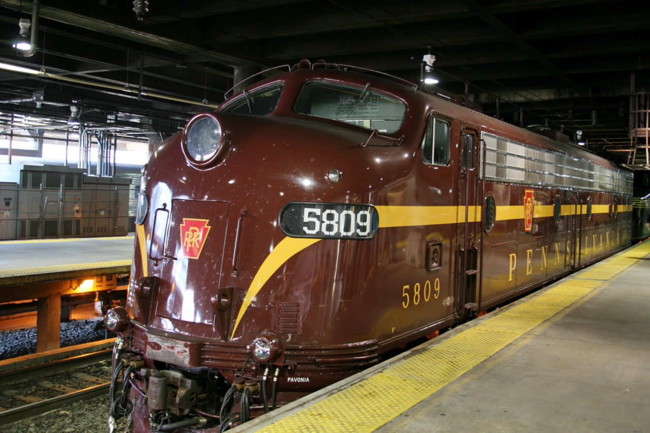 The noses of the E8 cab units had the appearance of a bulldog's snout when viewed from the side. Therefore, the E7, E8, and E9 units (as well as their four axle cousins, the F-unit series) have been nicknamed “bulldog nose” units. Earlier E-unit locomotives had a more slanted nose and were nicknamed “shovel nose” units or “slant nose” units.